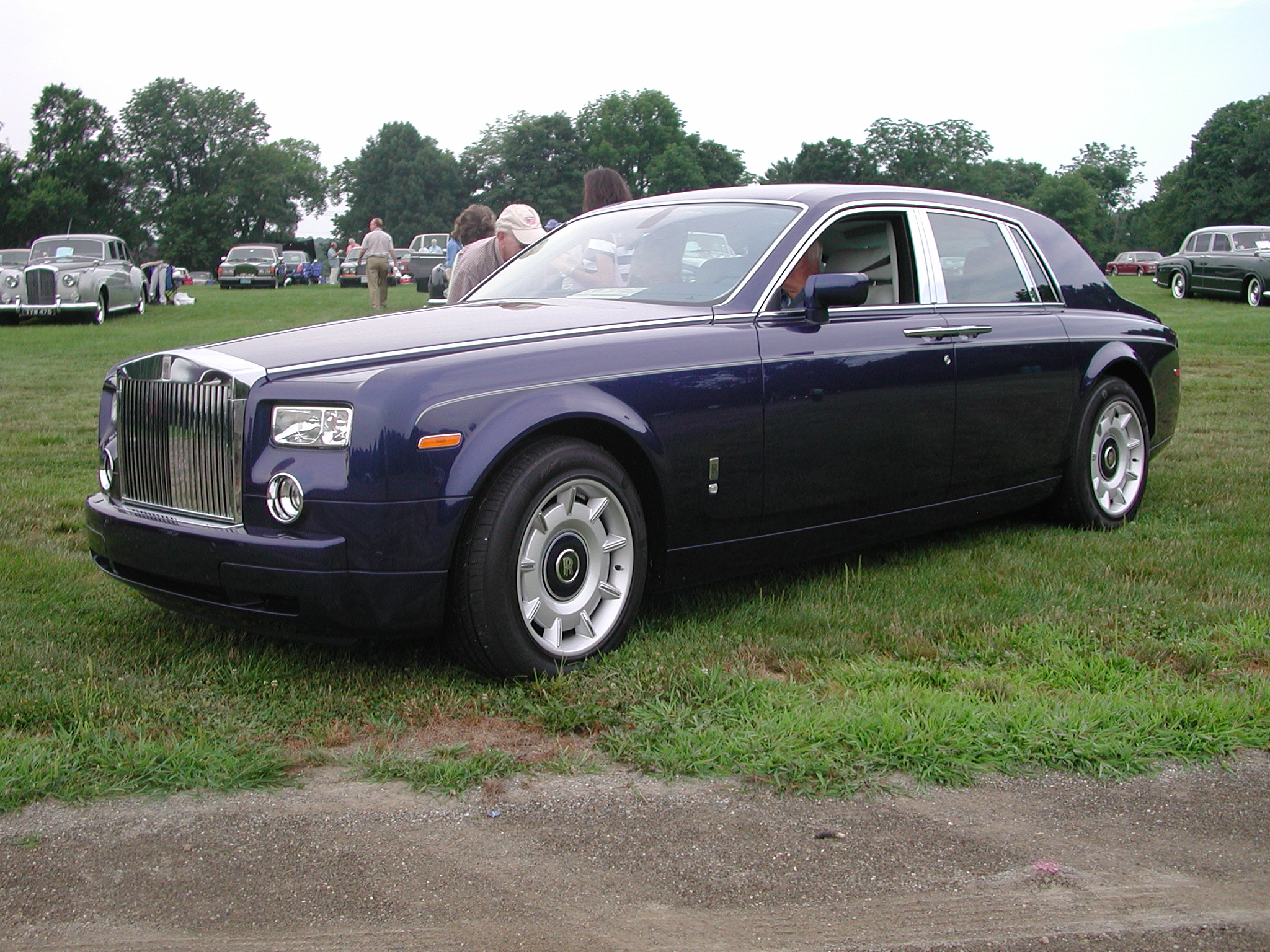 2005 Rolls-Royce Phantom Photographed by Jagvar at the Rolls-Royce Owners' Club's national meet in Darien on July 30, 2005.